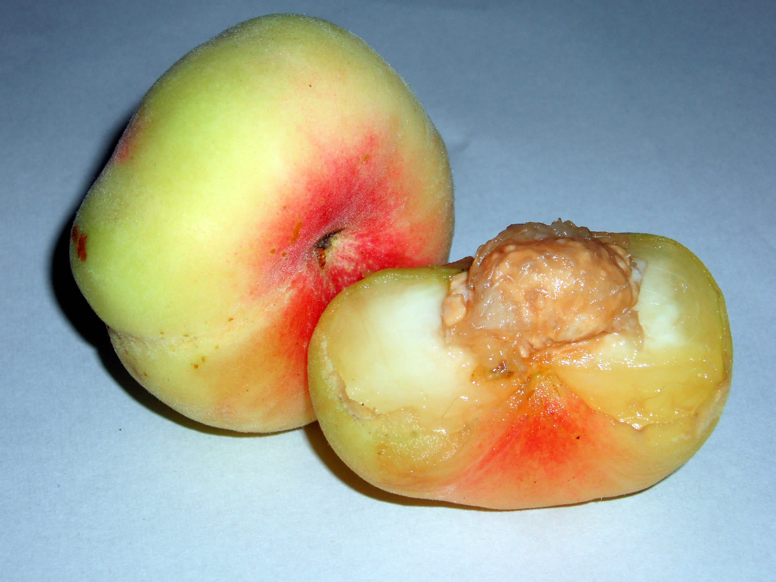 Fruits of Prunus persica f. compressa